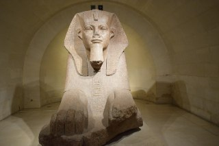 Exhibit of a Mummy at Lovre Museum, Paris